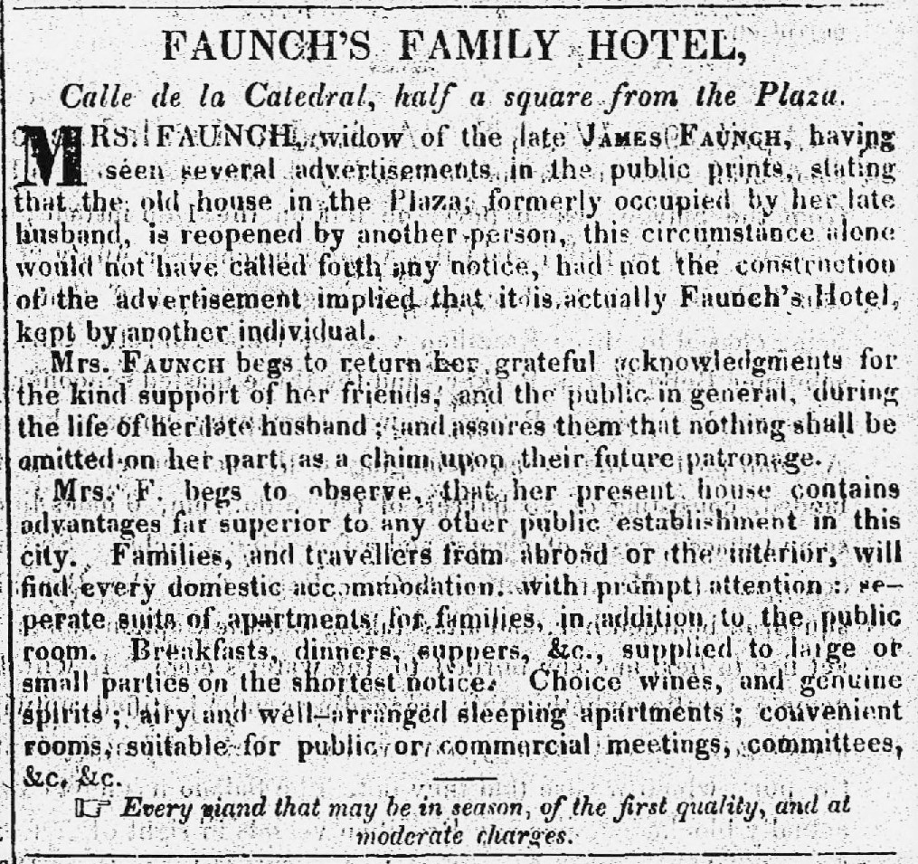 announcement of the Faunch Hotel in the newspaper The British Packet and Argentine News..